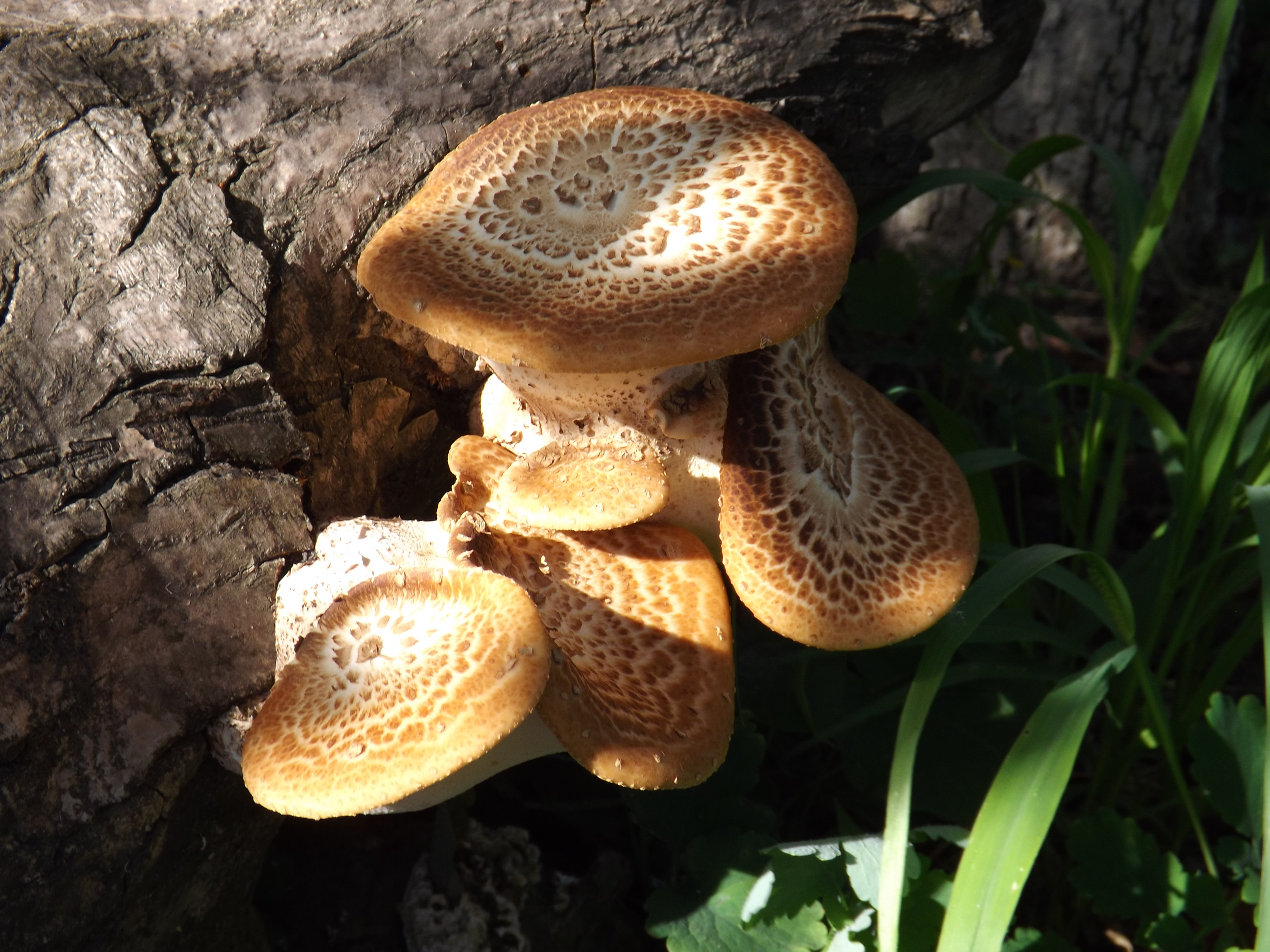 Fungi Dryad's saddle Polyporus squamosus, Dnipro city